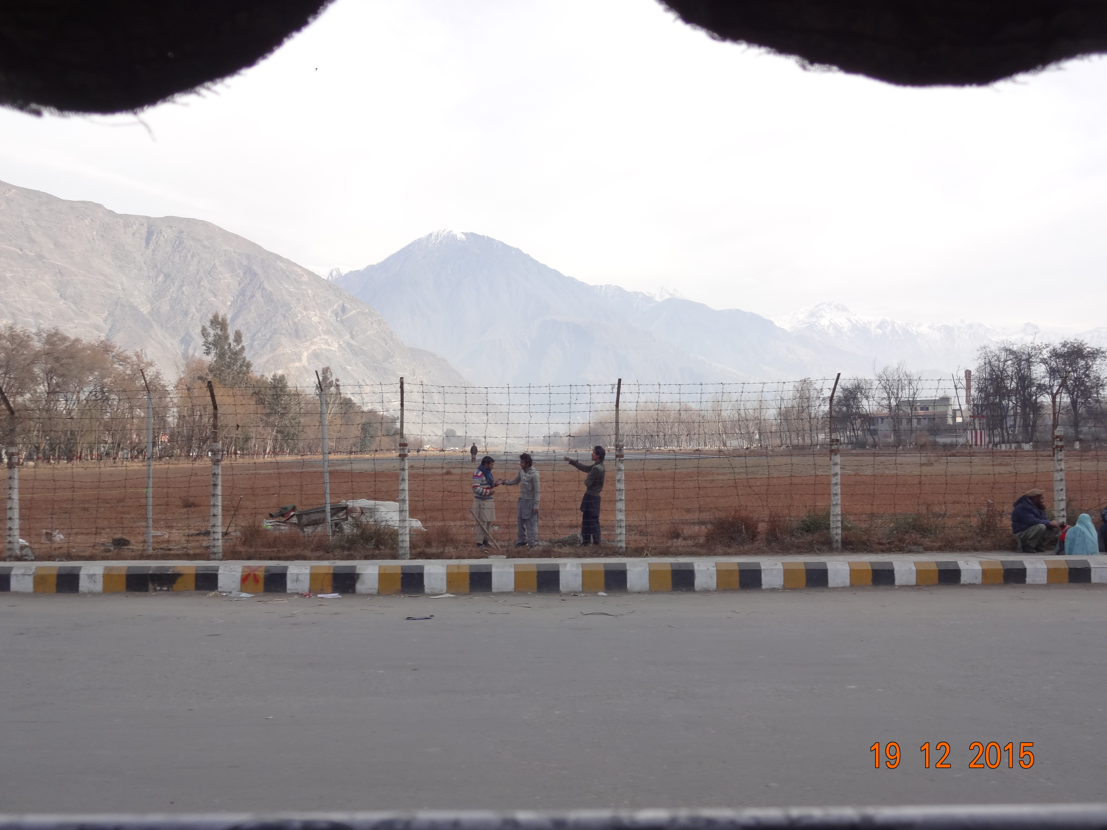 A picture of the Gilgit Airport taken from a vehicle.